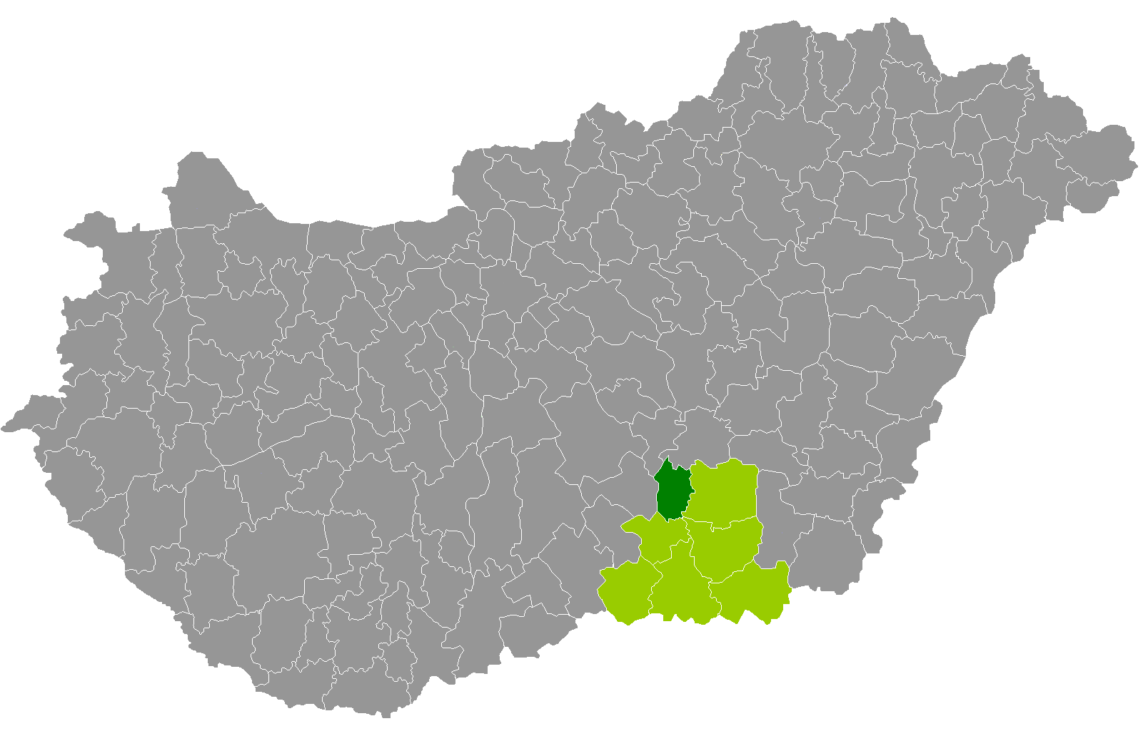 Location of Csongrád District, Csongrád, Hungary